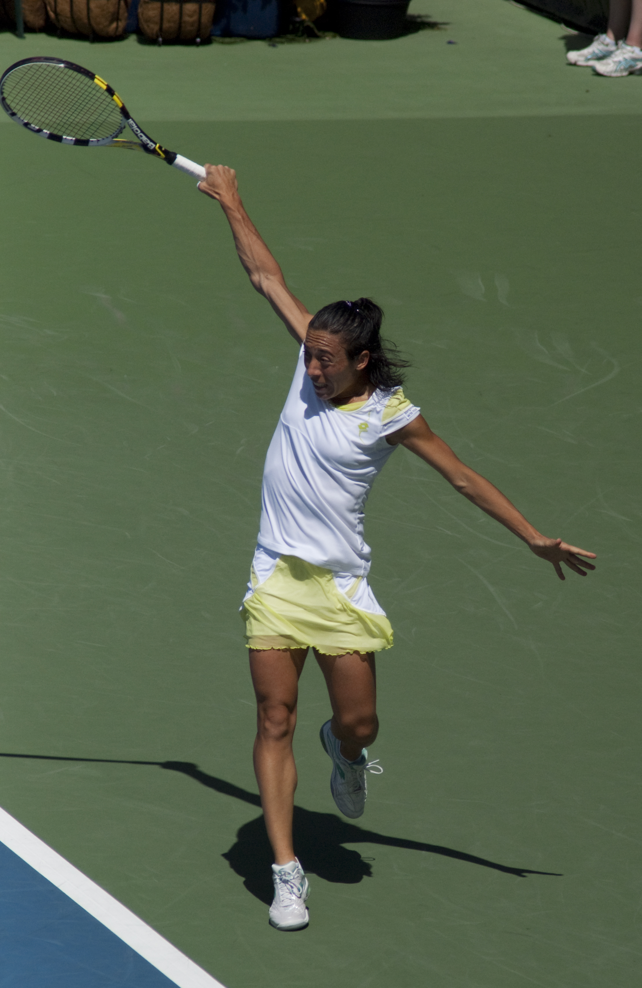 Semis-Day for ASB Classic 2010 Friday, January 8 Centre Court Noon KIA Motors Singles SF - 3-WC Yanina Wickmayer (BEL) bt Shahar Peer (ISR) 6-4 7-5 followed by KIA Motors Singles SF - 1 Flavia Pennetta (ITA) bt 4 Francesca Schiavone (ITA) 6-3 6-0 followed by (after suitable break) KIA Motors Doubles SF - 1 Cara Black (ZIM)/Liezel Huber (USA) bt 3 Flavia Pennetta (ITA)/Francesca Schiavone (ITA) 6-1 5-7 10-8